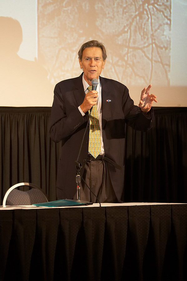 French physicist and Nobel Prize-winner Pierre-Gilles de Gennes (1932-2007) during a lecture in 2006